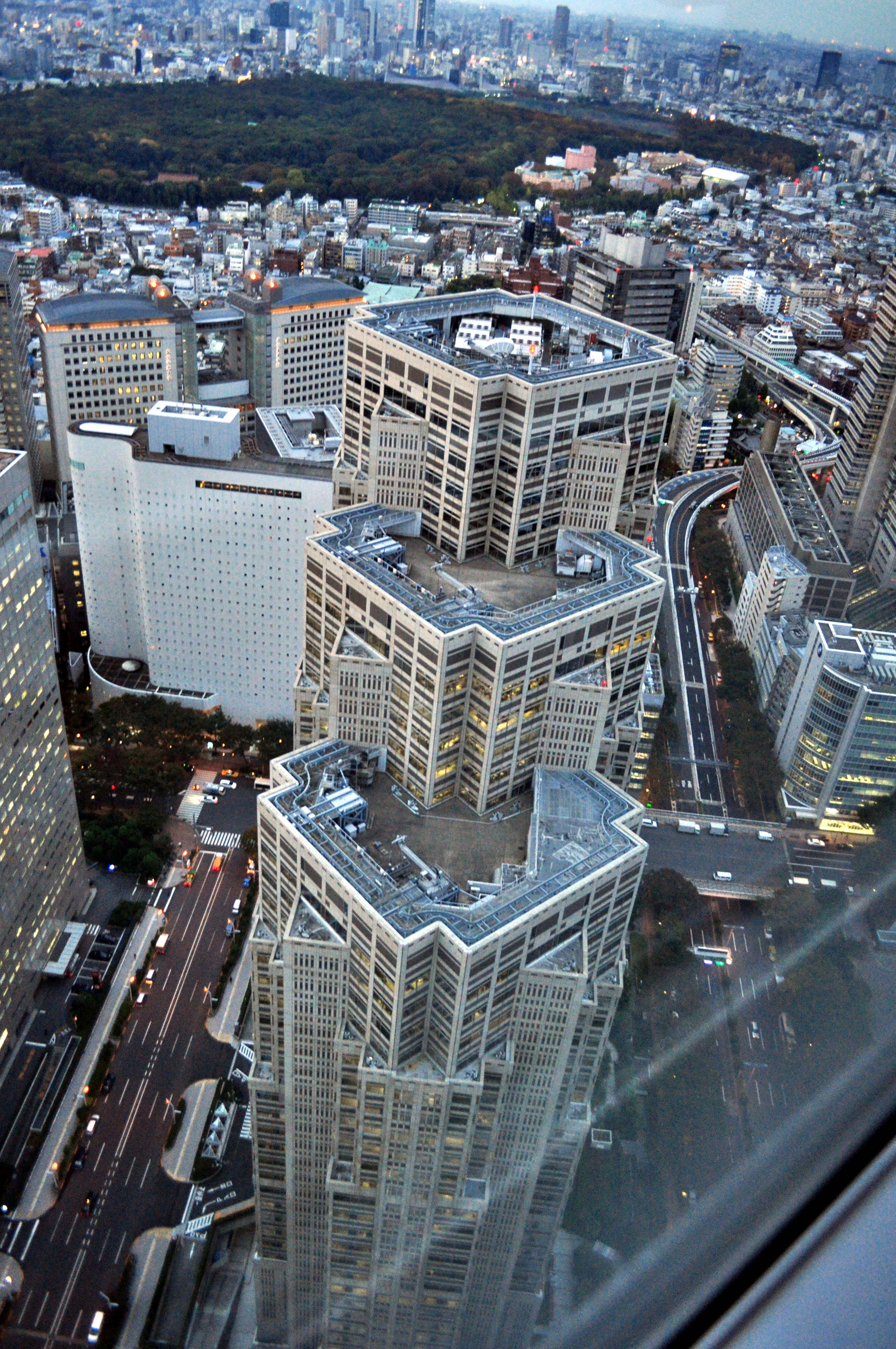 From the South Tower observation deck of the Tokyo Metropolitan Government Building No.1.